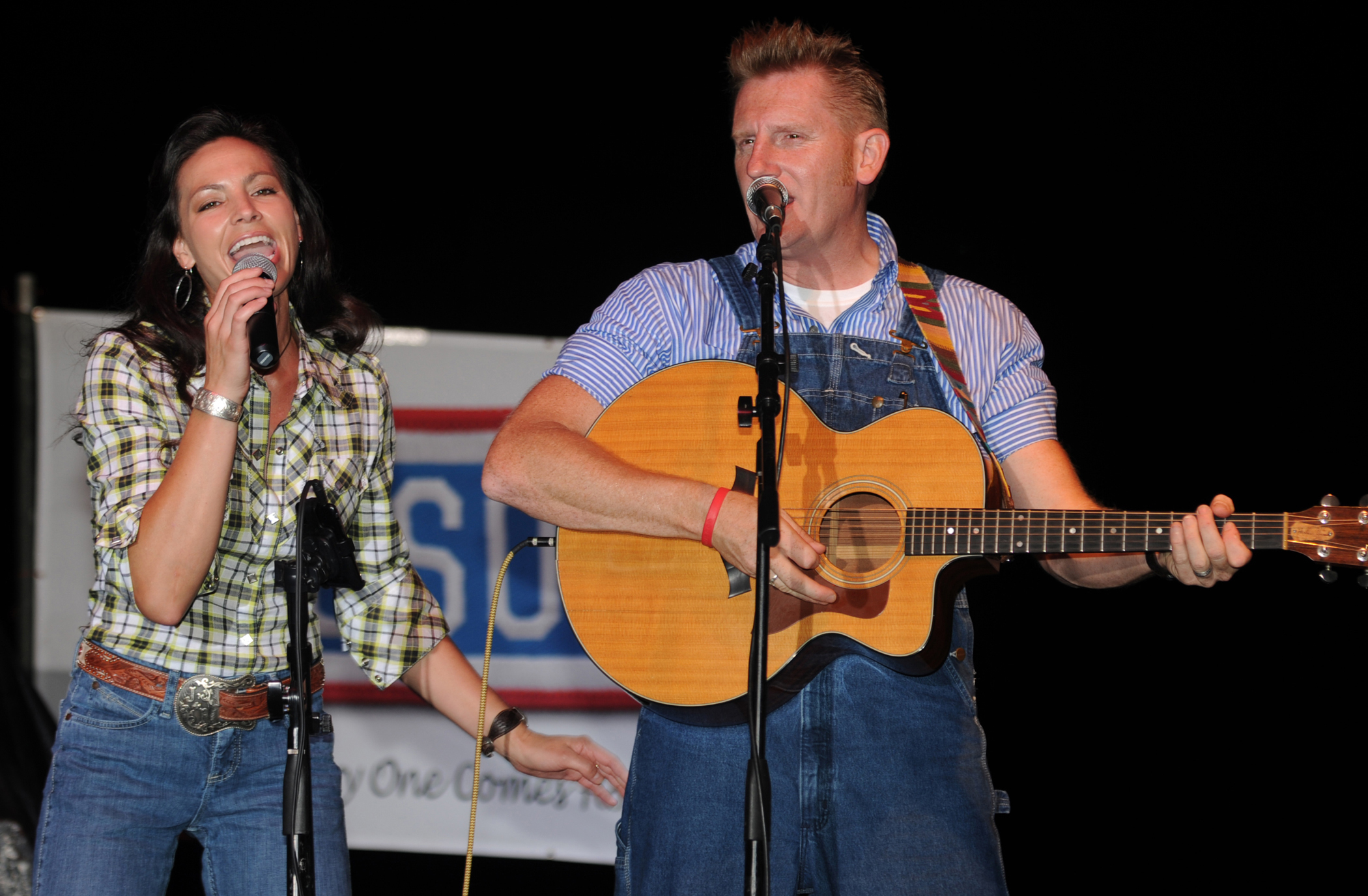 Joey and Rory, a country music band, perform for Joint Task Force Guantanamo service members and the Naval Station Guantanamo Bay community at the Tiki Bar, July 4. Fourth of July weekend events were provided by Morale, Welfare and Recreation and included a magic show, fireworks and live music. JTF Guantanamo conducts safe, humane, legal and transparent care and custody of detainees, including those convicted by military commission and those ordered released by a court. The JTF conducts intelligence collection, analysis and dissemination for the protection of detainees and personnel working in JTF Guantanamo facilities and in support of the War on Terror. JTF Guantanamo provides support to the Office of Military Commissions, to law enforcement and to war crimes investigations. The JTF conducts planning for and, on order, responds to Caribbean mass migration operations.